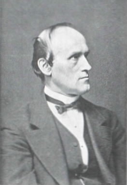 Friedrich Kiel (1821–1885), German composer and teacher.